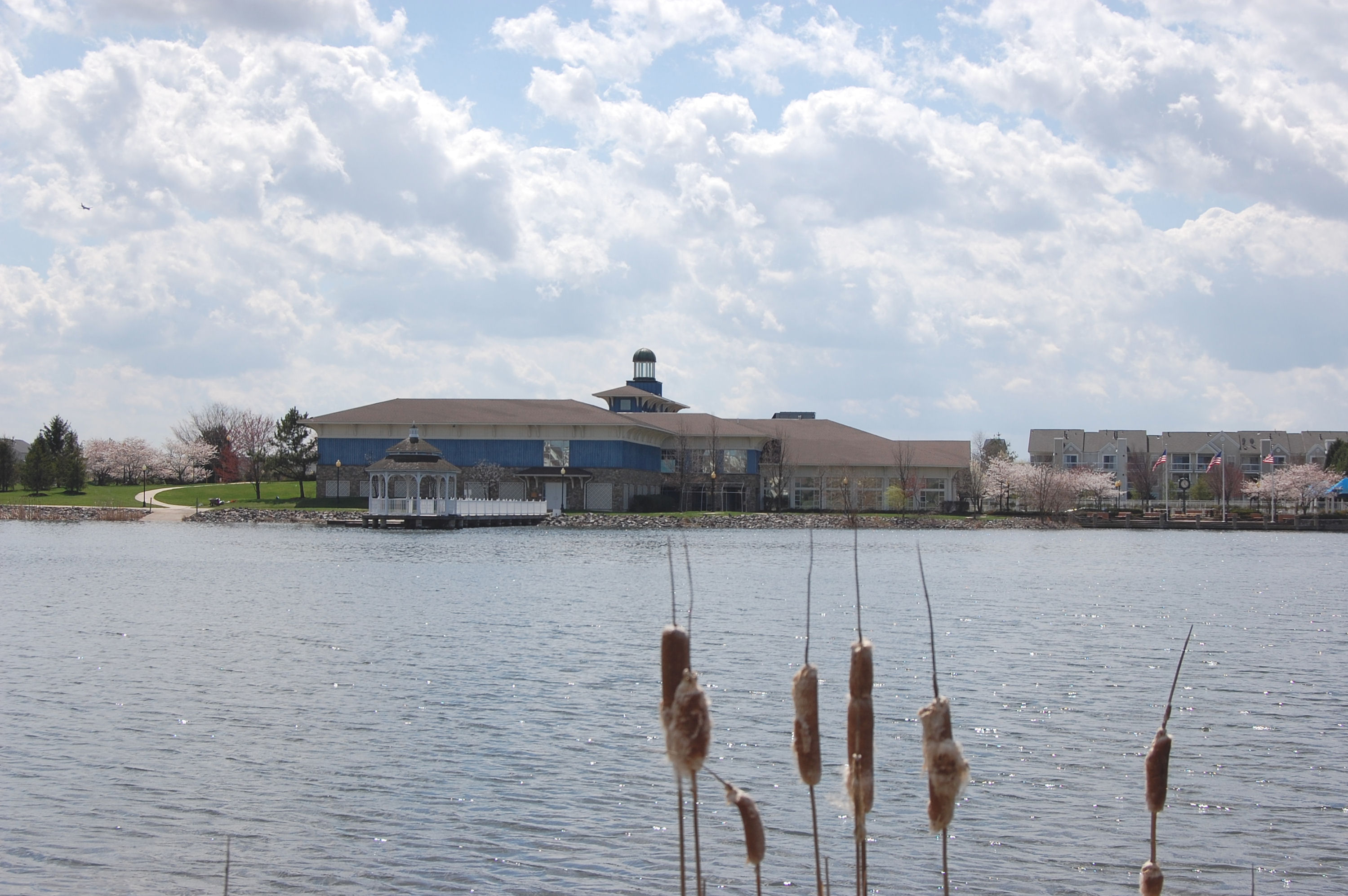 Ashburn Village Sports Pavilion, Ashburn, VA (20147), USA 39.0437192° -77.4874899°